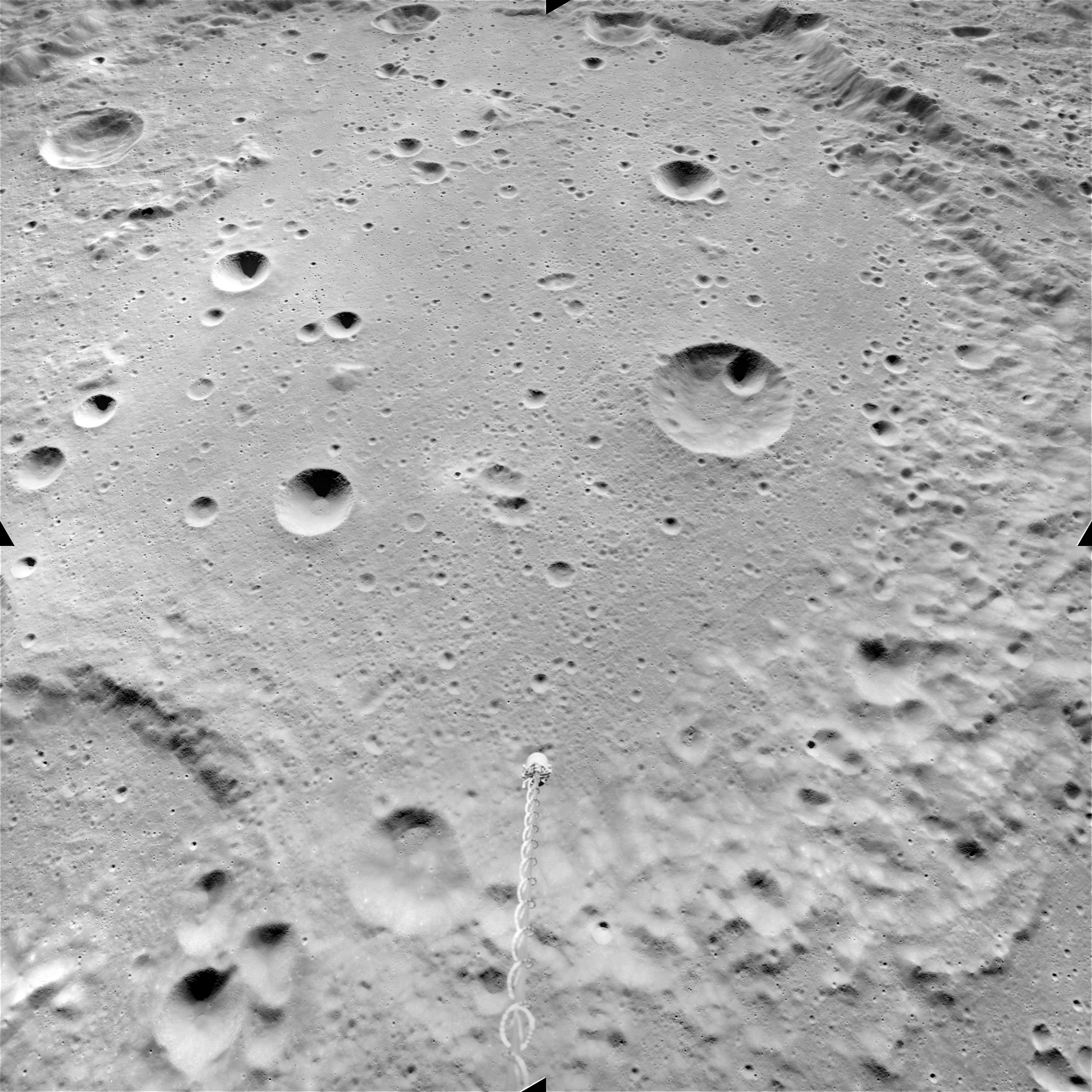 Oblique view of Mendeleev, on the far side of the moon, facing west. Object in center foreground is the gamma-ray spectrometer of the spacecraft.